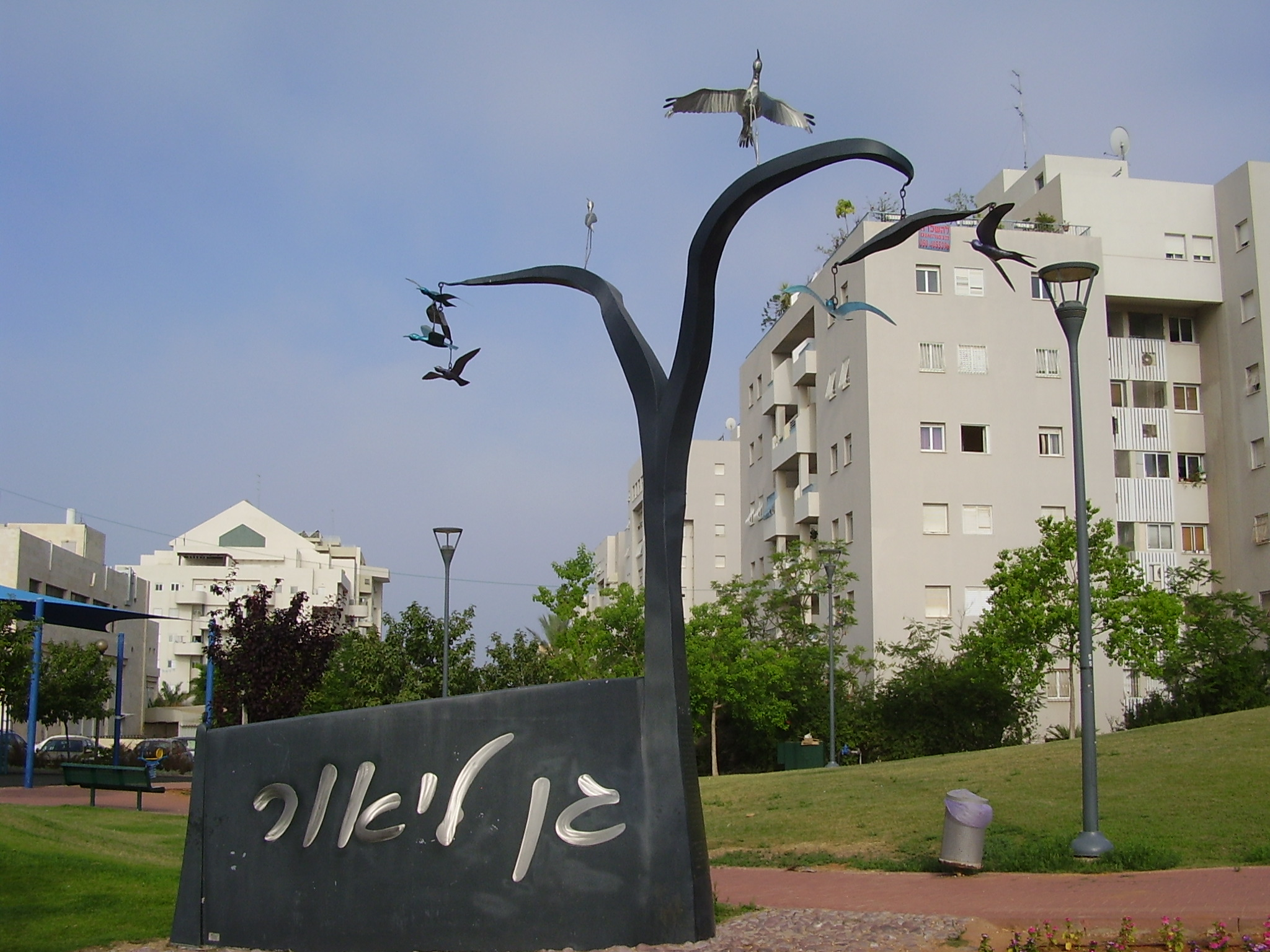 Lior Garden in Rehovot